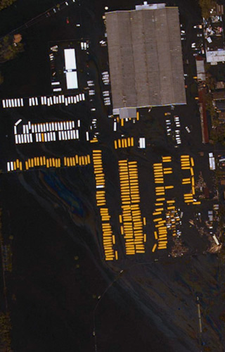 A high-resolution overhead shot of a full bus yard located in New Orleans. Intersection of Chicasaw St and Metropolitan St, southwest of the I-10 crossing a canal northeast of downtown. This is the Desire neighborhood of the 9th Ward, just west of the Industrial Canal, on the other side from the junction of Mississipi River Gulf Outlet, thus one of the first areas of the city to flood catestrophically.